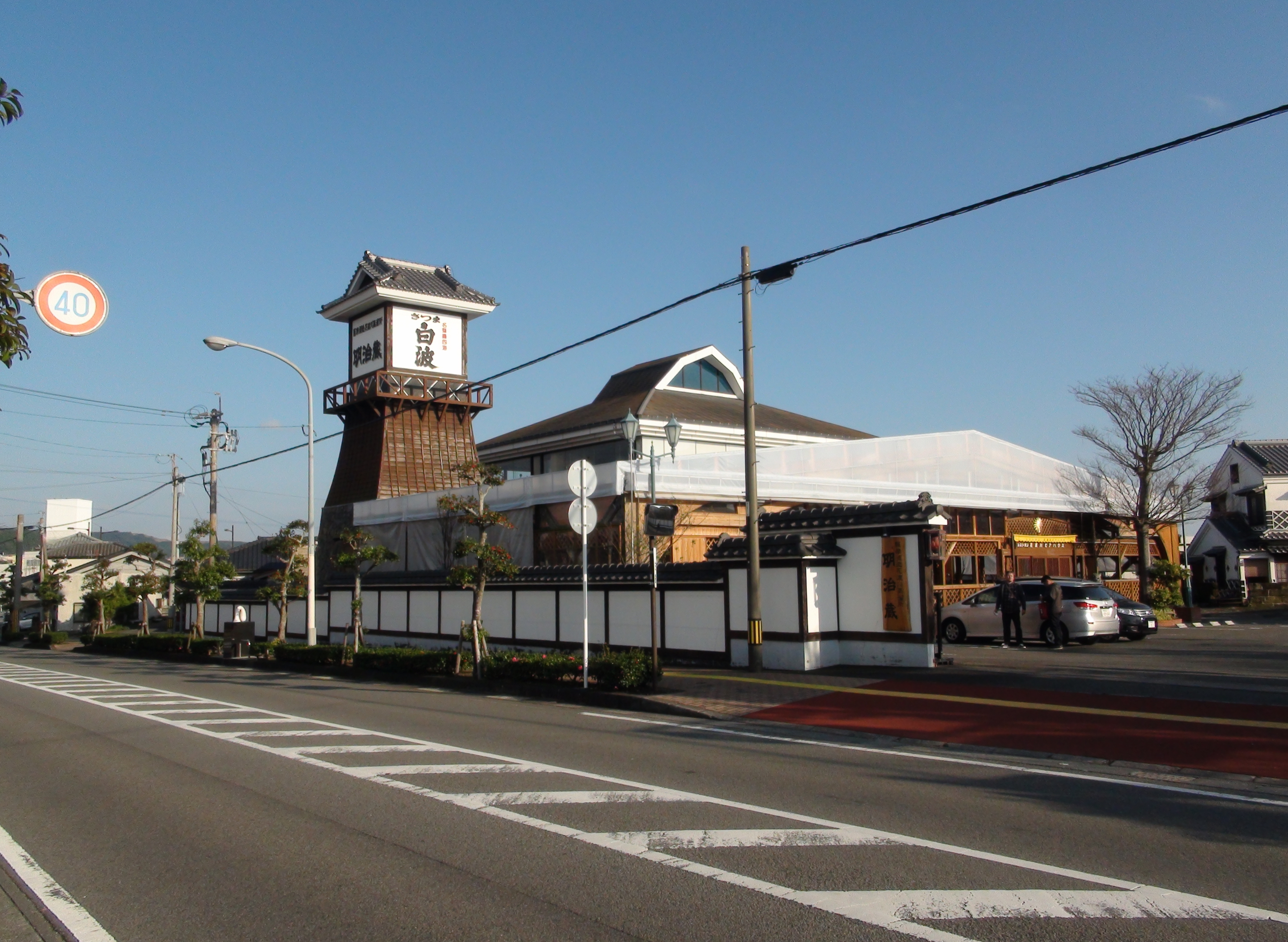 Satsuma Shuzo, Makurazaki, Kagoshima